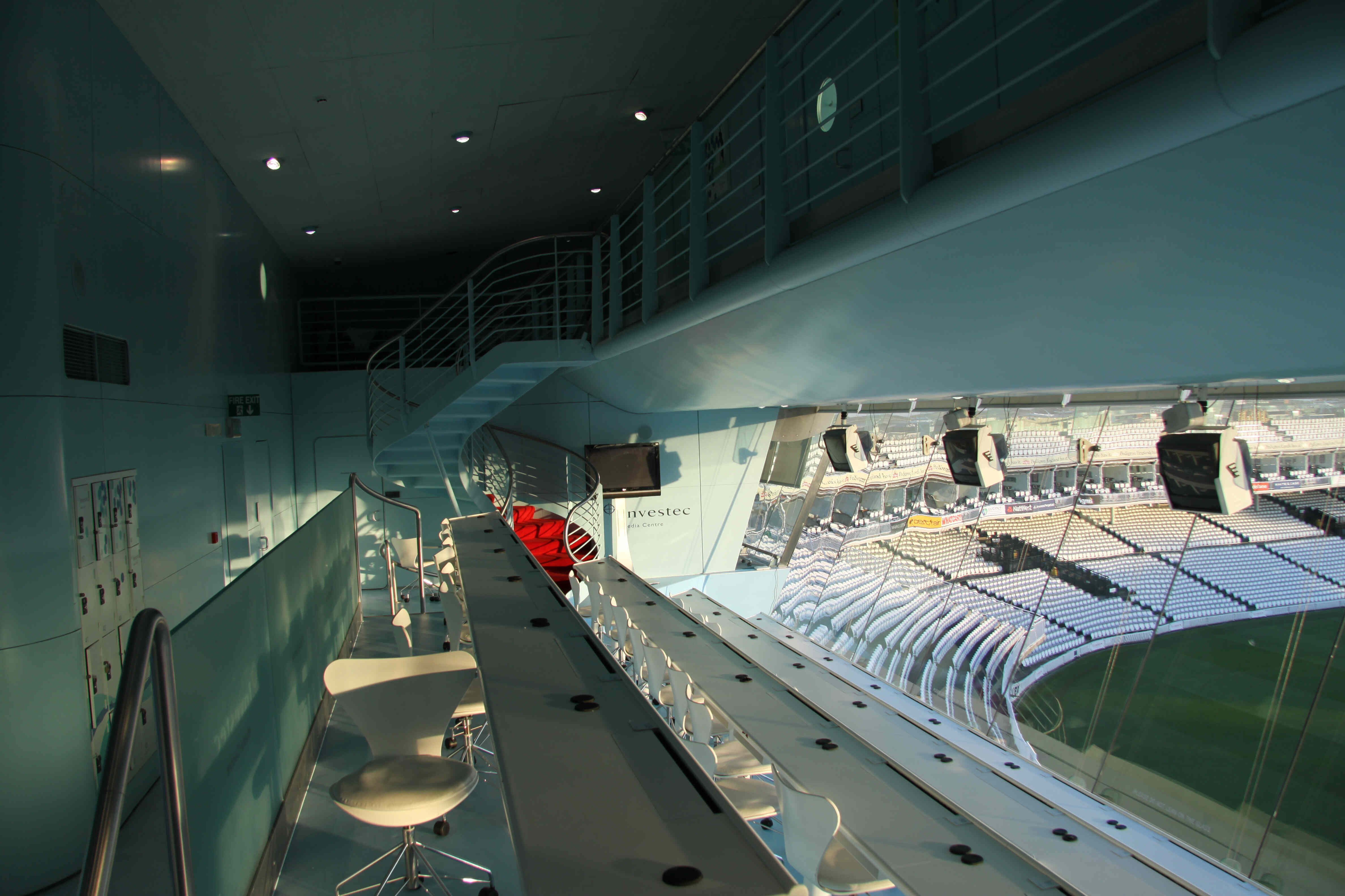 A view of the inside of the Lords Cricket Ground Media Centre